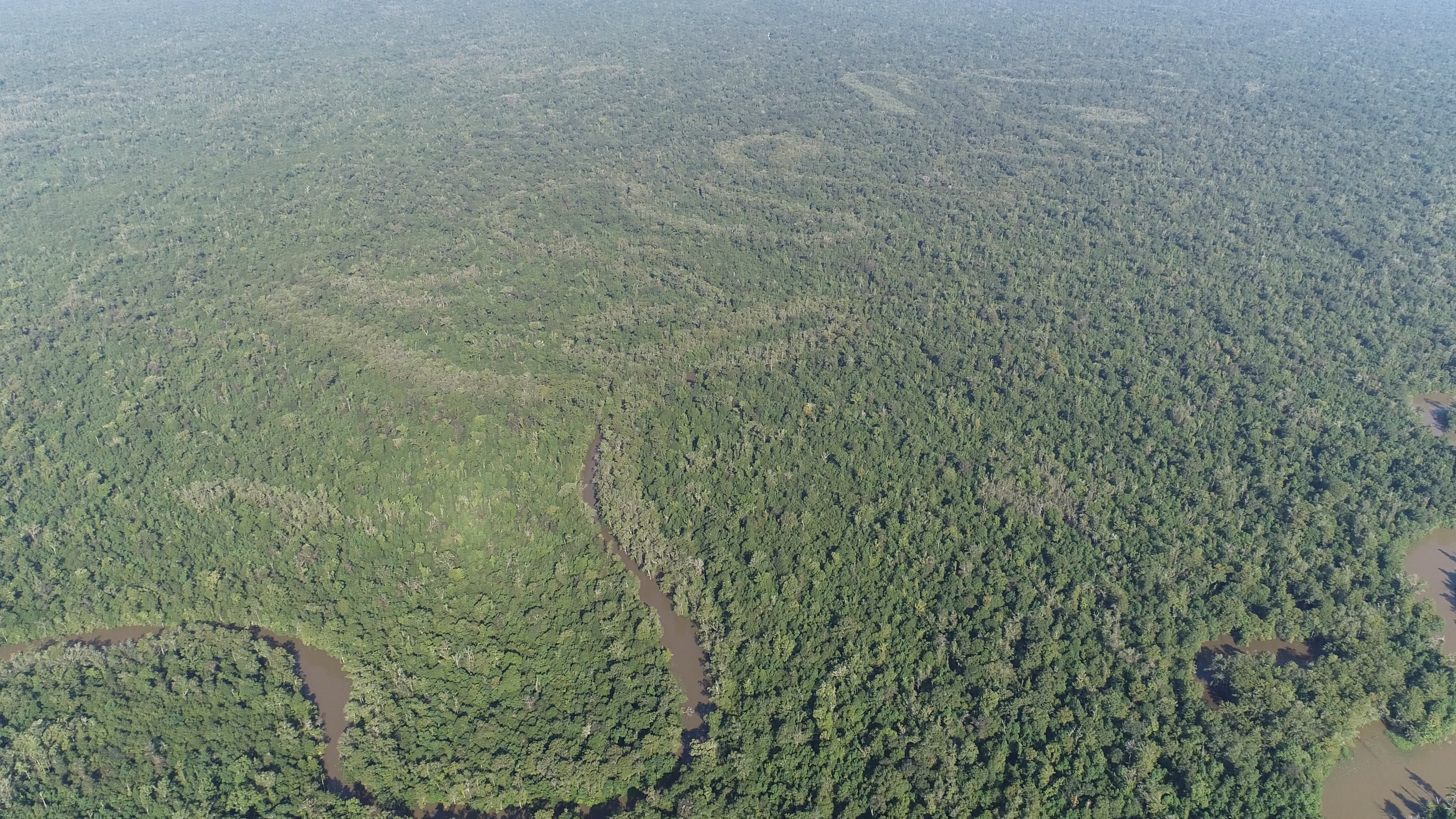 An area along English Bayou in the Pearl River where Michael Collins reported ivory-billed woodpeckers in 2006 and 2008.